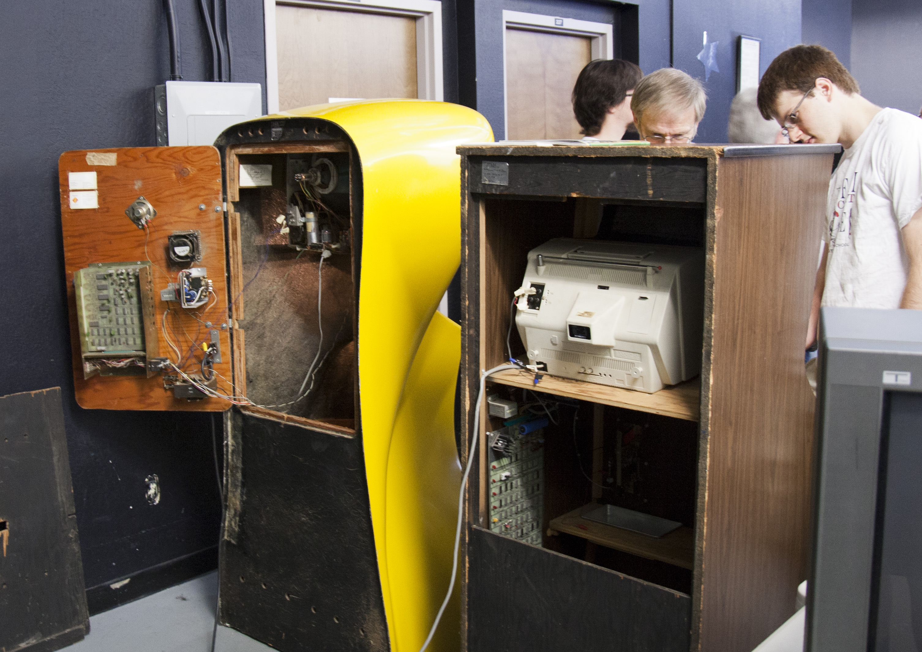 You were expecting high tech? Hey, there are actual chips in that Pong!